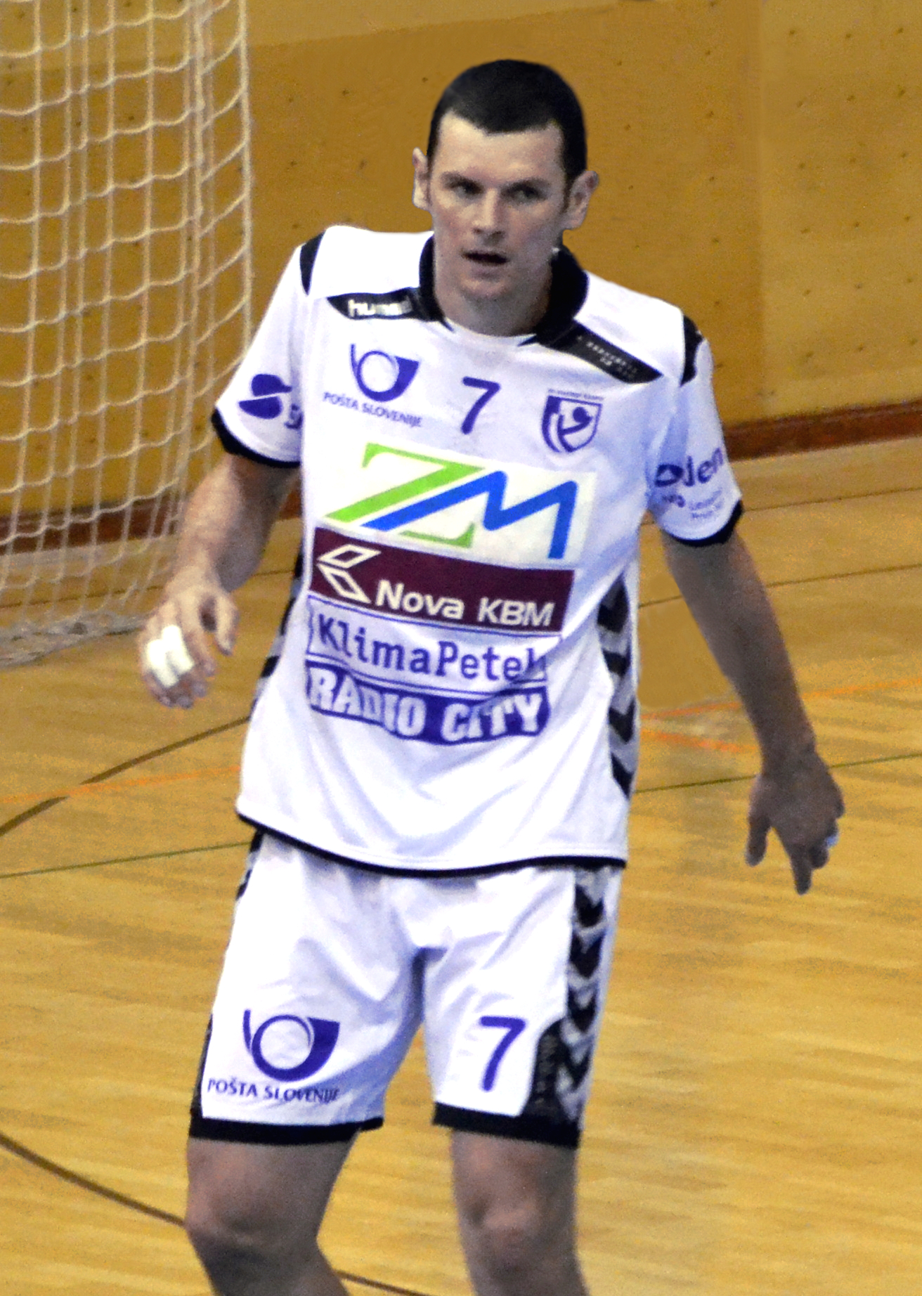 Marko Oštir, handball player from Slovenia.